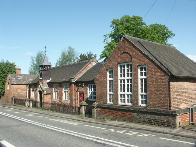 Turnditch. The village school which has a stone marker over the door inscribed 'National School 1846'.